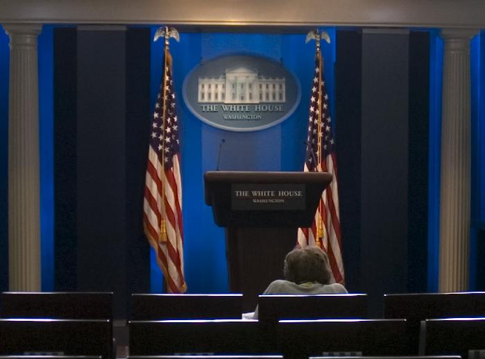 The "James Brady Press Briefing Room" a half hour before the morning gaggle. In the front rank, Helen Thomas